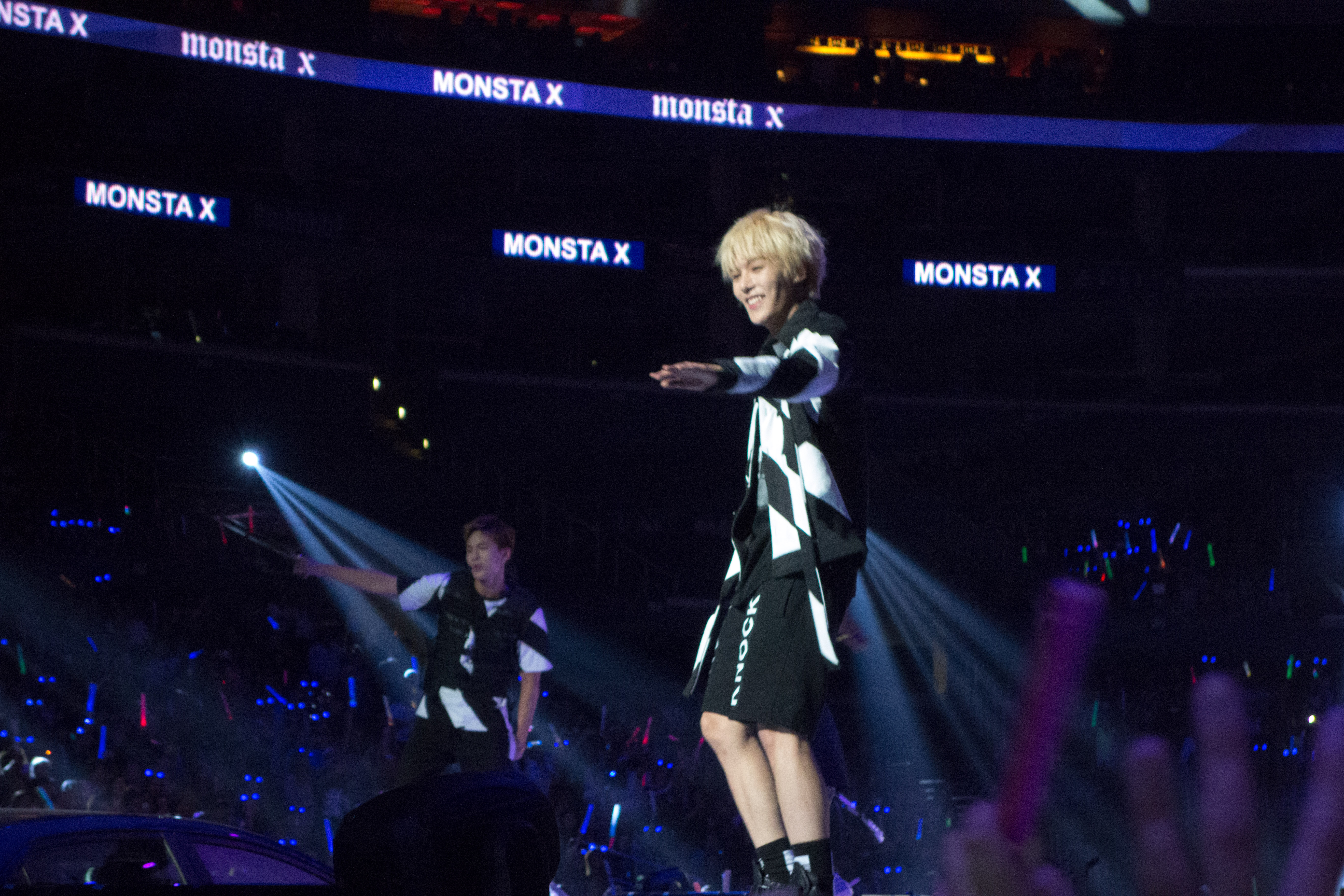 Monsta X performing at L.A. KCON 2015.